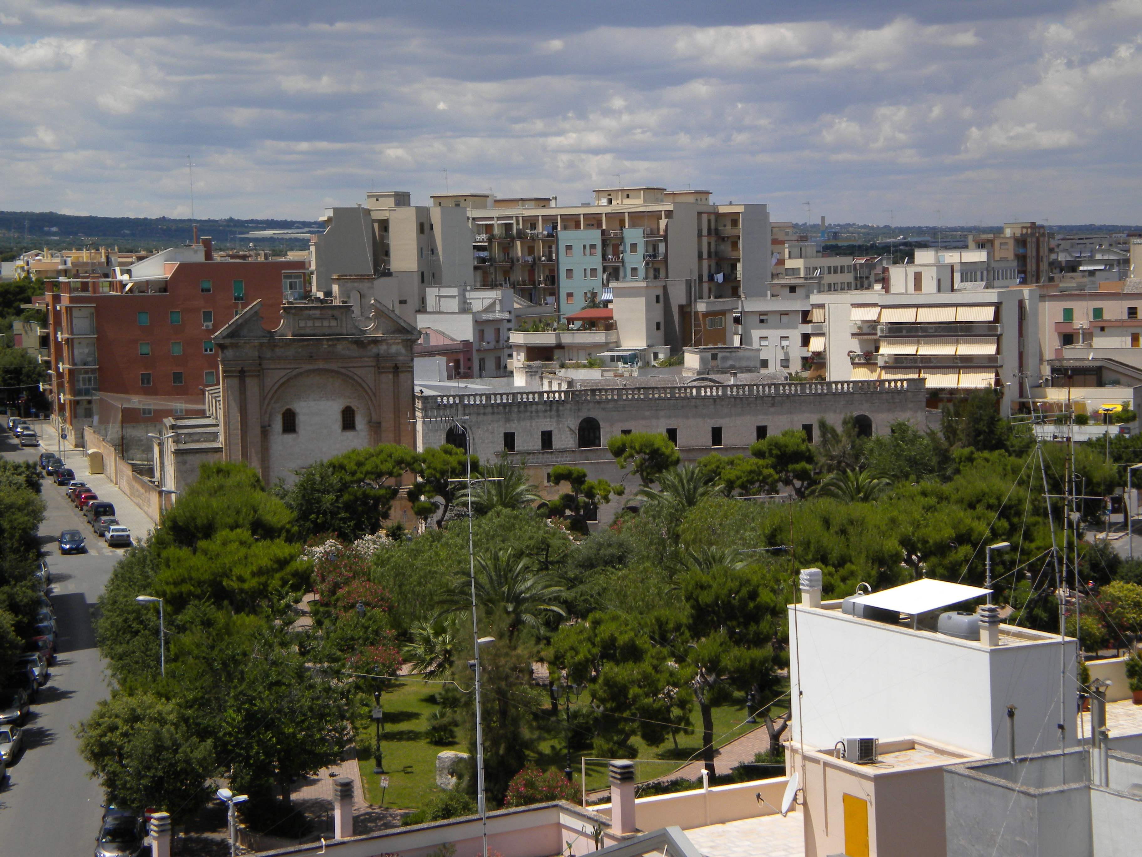 Piazza Sant'Antonio (Saint Anthony's square), Monopoli, Bari, Italy